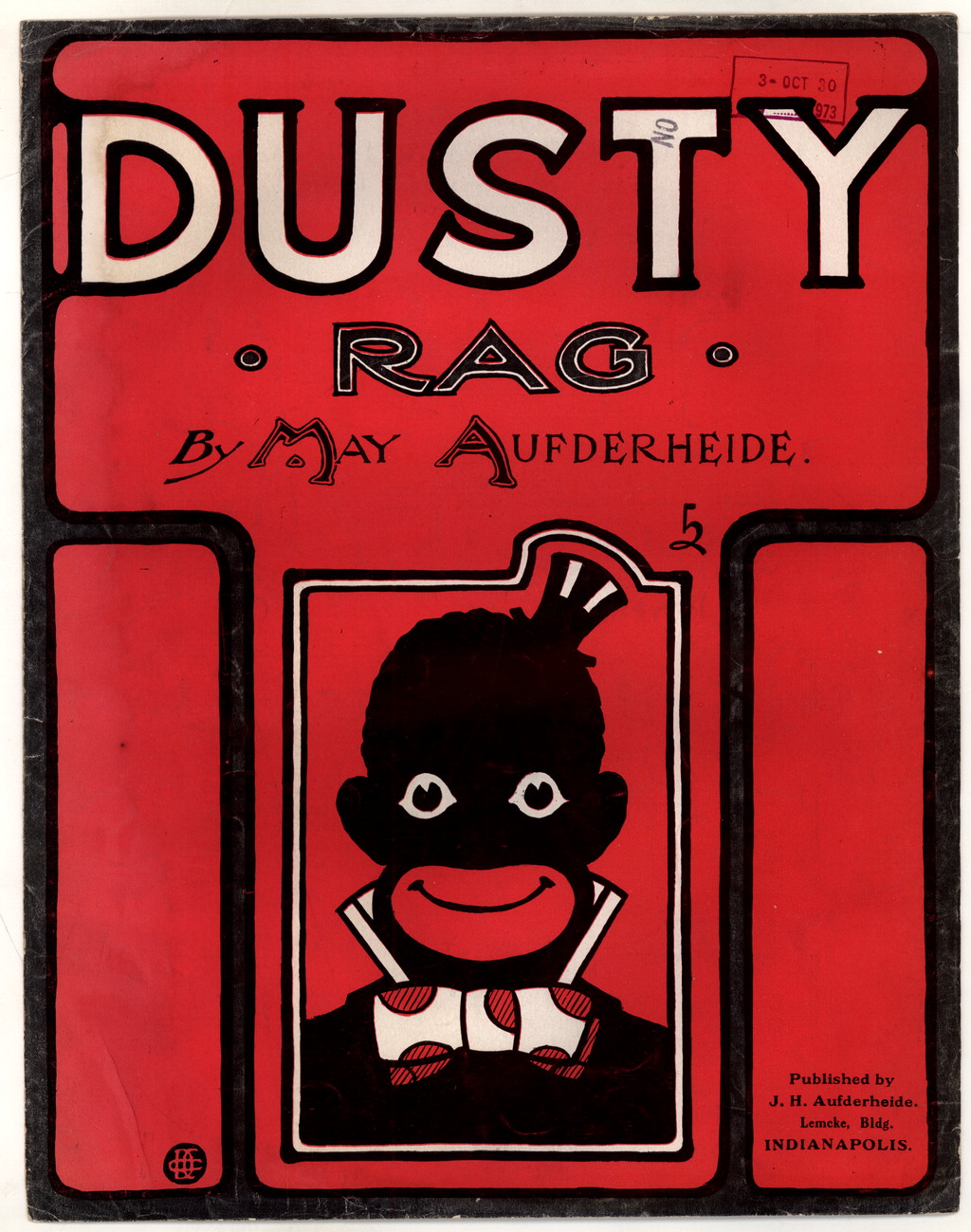 "Dusty Rag" (sheet music) page 1 of 4